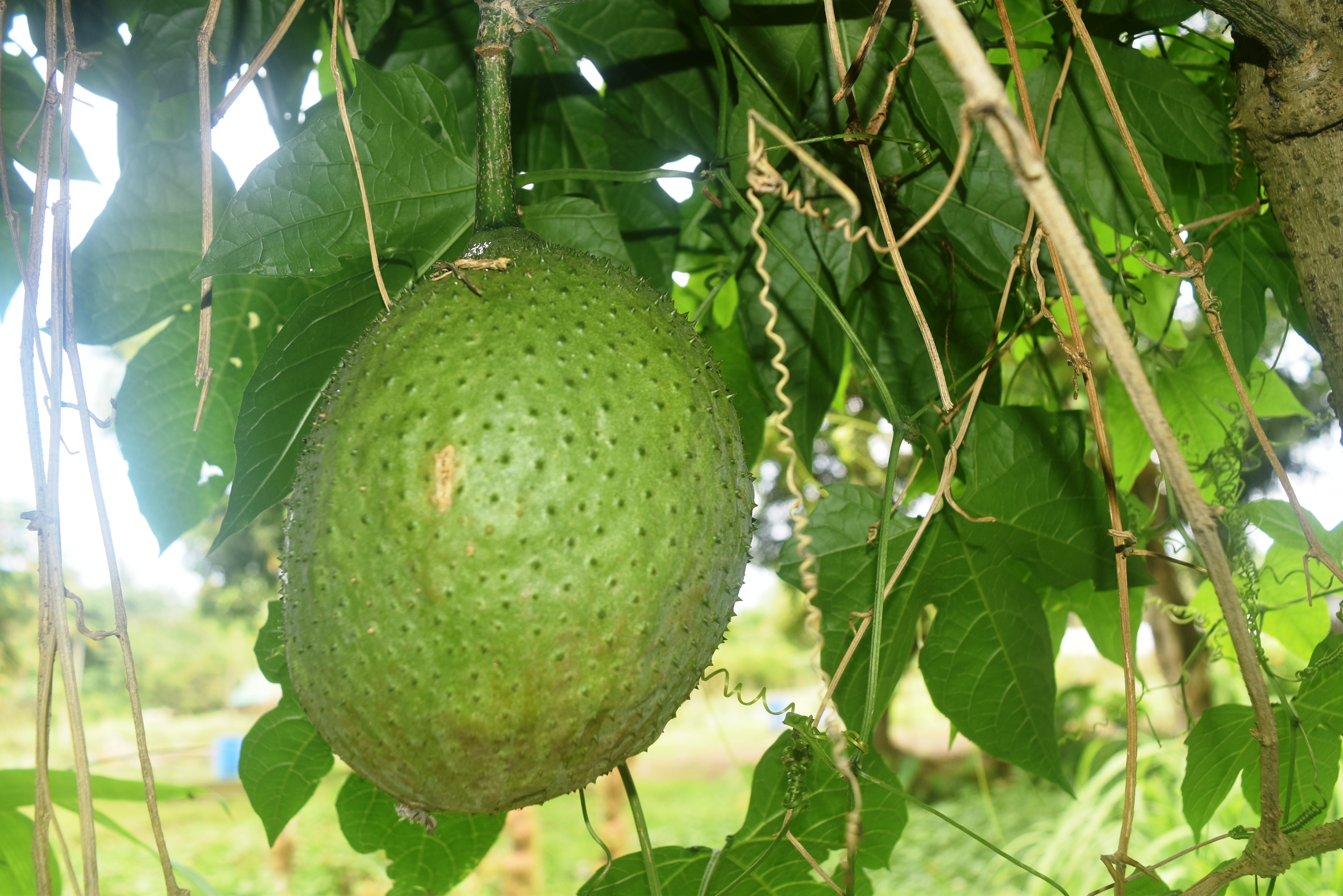 Gac Fruit is being used for food coloring. This picture was taken in the Organic Agriculture Farm at CBSUA, Pili, Camarines Sur